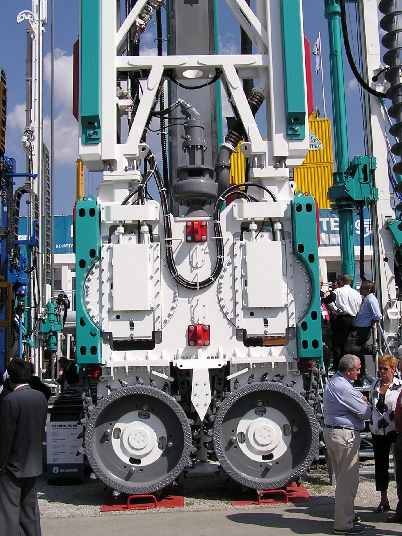 CASAGRANDE FD 60 ON MAST – Trench cutter (excavation tool for diaphragm walls). Photographed at the BAUMA exhibition in Munich (Germany) 2007.